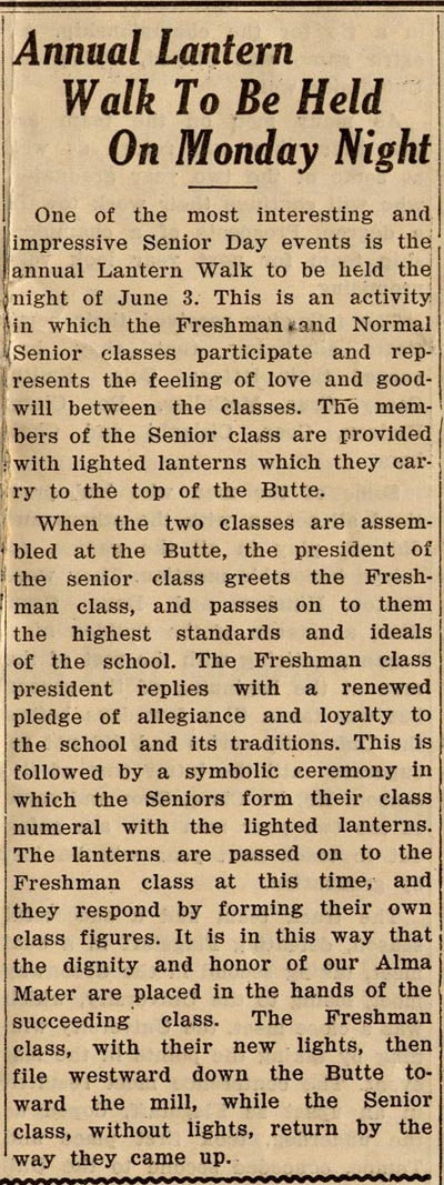 Newspaper clipping from "The Collegian" published in 1929 describing the ASU tradition of the Lantern Walk.